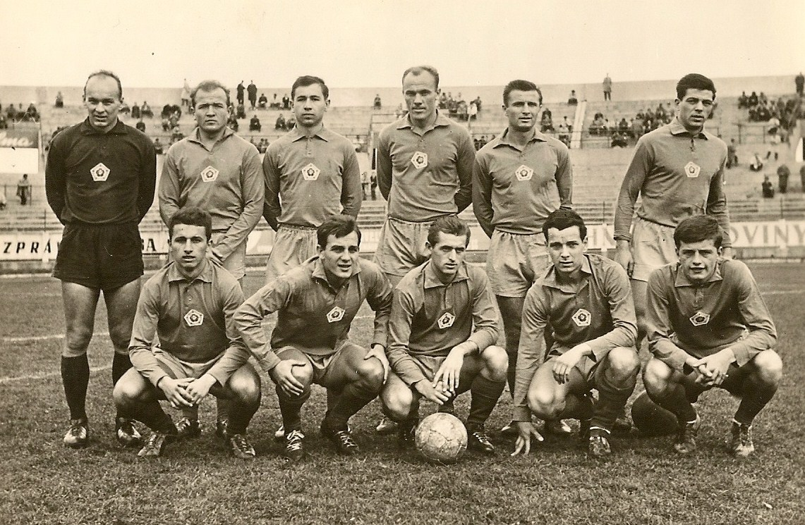 ŠK Slovan Bratislava from 1963/64 season.